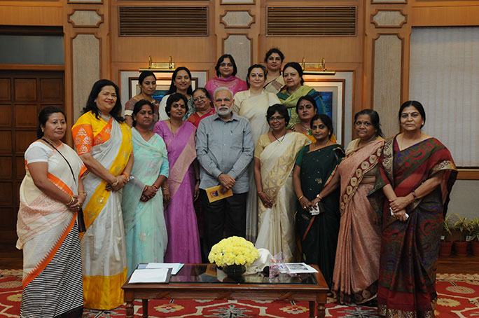 Office Bearers of BJP Mahila Morcha call on PM